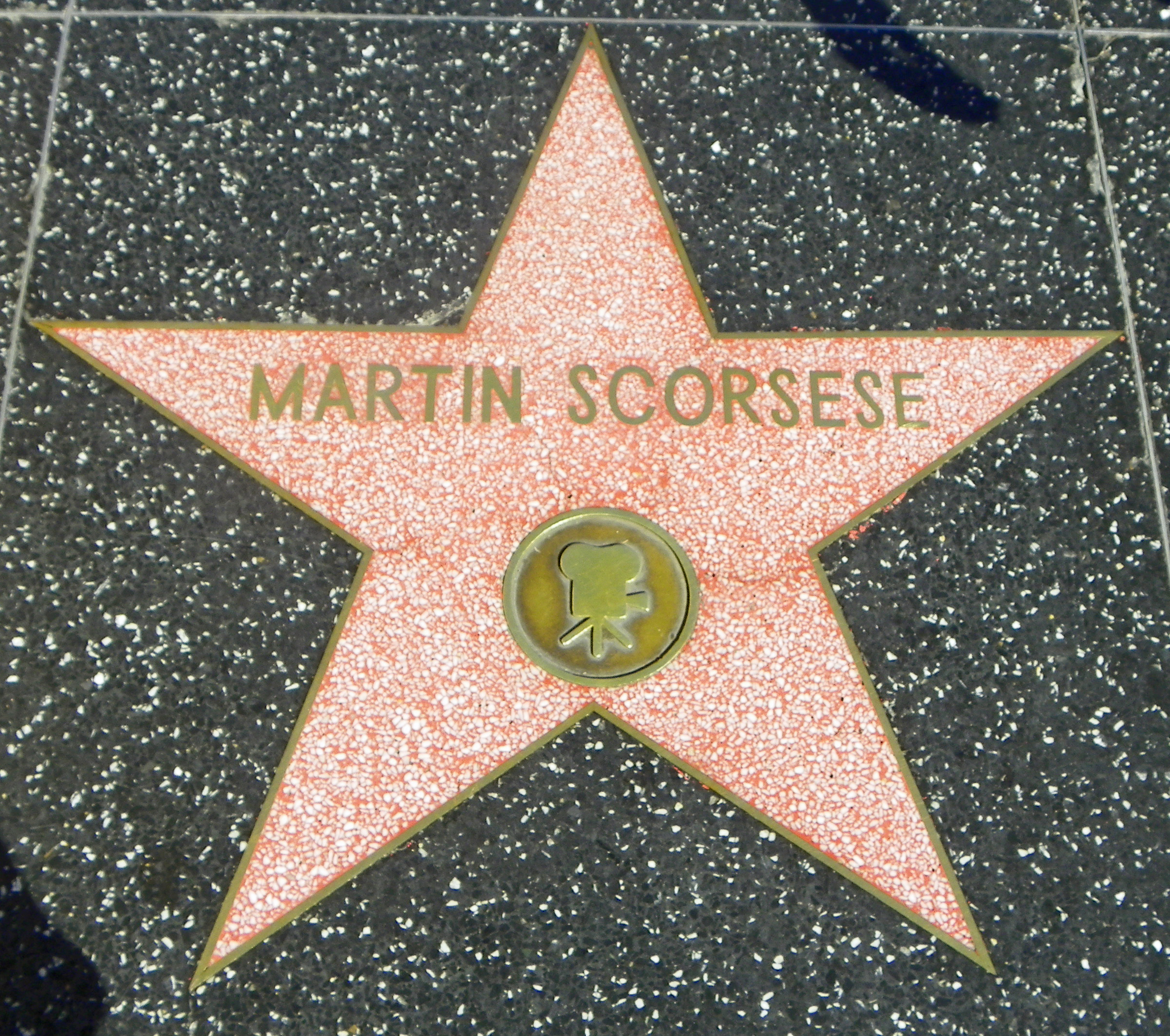 Martin Scorsese's star on the Hollywood Walk of Fame in Hollywood, Los Angeles, California